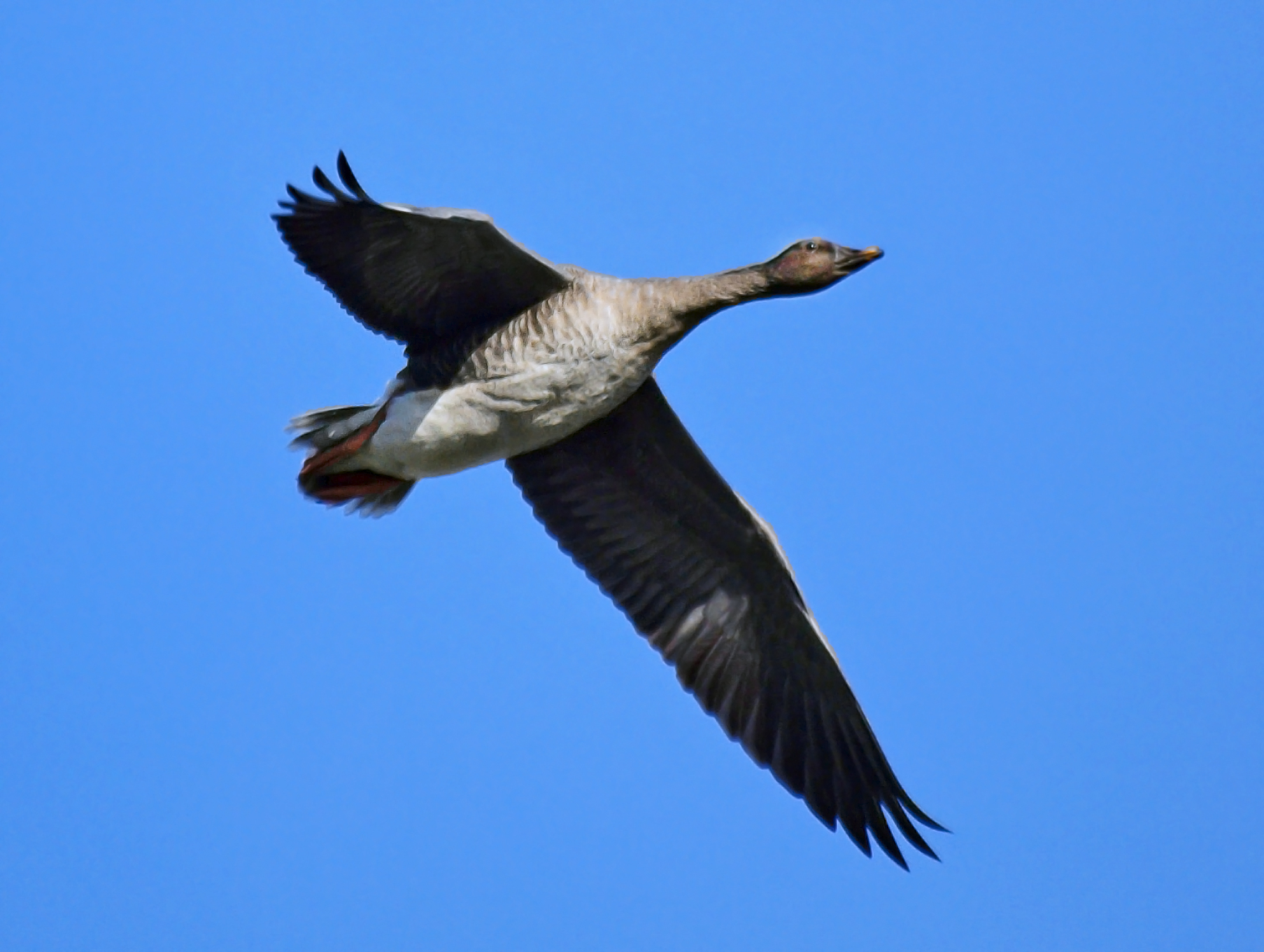 Bean Goose (Anser fabalis) at Kvismaren nature reserve, Sweden